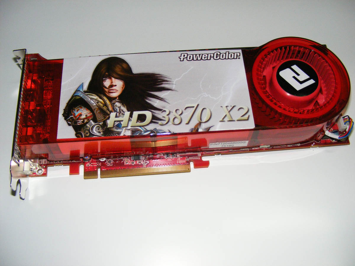 PowerColor HD3870X2 PCIe